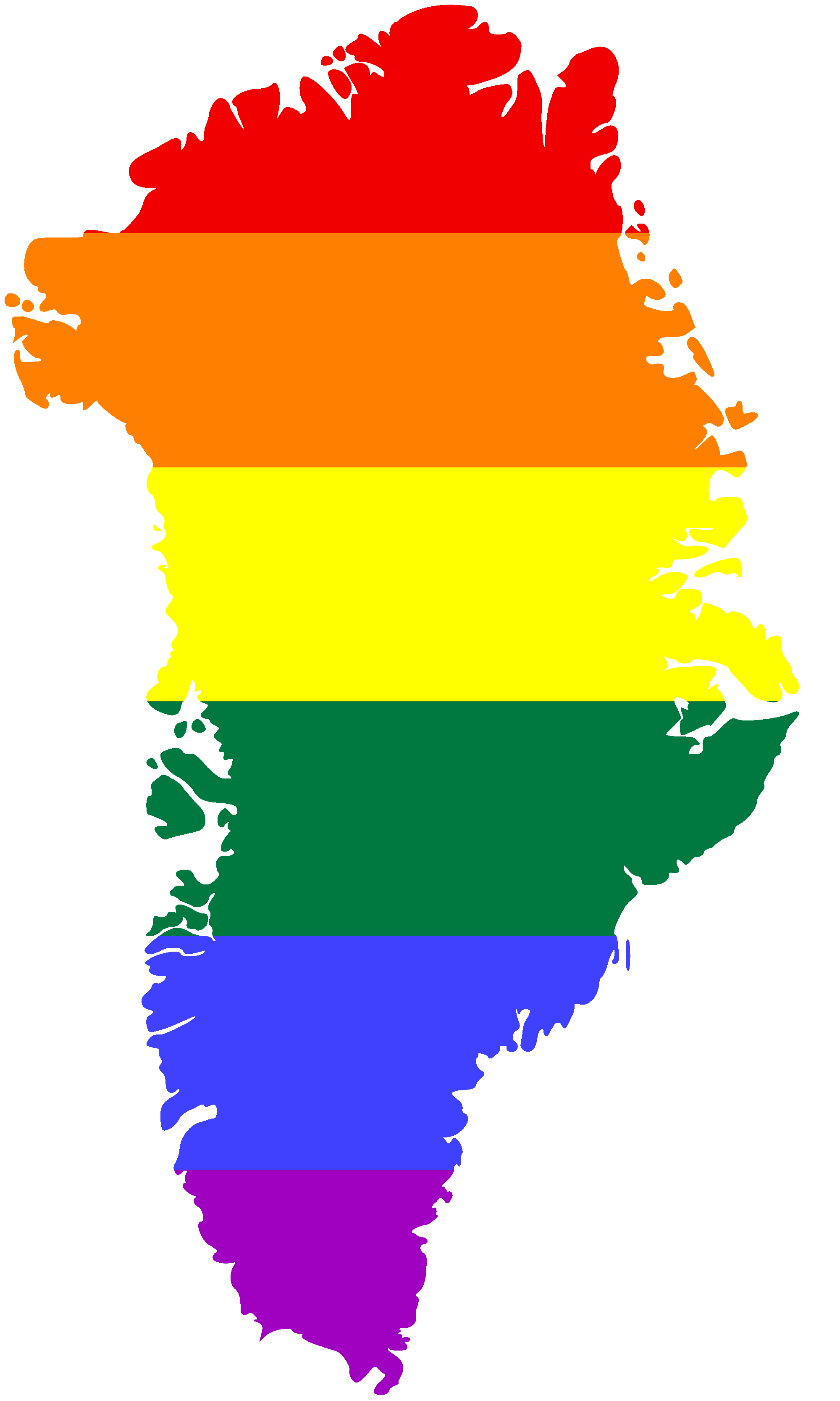 LGBT Flag Map of Greenland